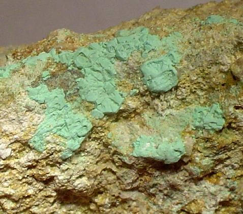 Eriochalcite, Bandylite Locality: Queténa Mine, Toki Cu deposit, Chuquicamata District, Calama, El Loa Province, Antofagasta Region, Chile (Locality at ) Size: 7.8 x 5.2 x 3.0 cm. A very rare pseudomorph of bluish-green eriochalcite after crystal aggregates of bandylite on quartz from the bandylite Type Locality, the Quetana Mine of Chile. Eriochalcite and bandylite are rare copper clorides and this is an exceptionally rich specimen. Ex. Robert Linck Collection.